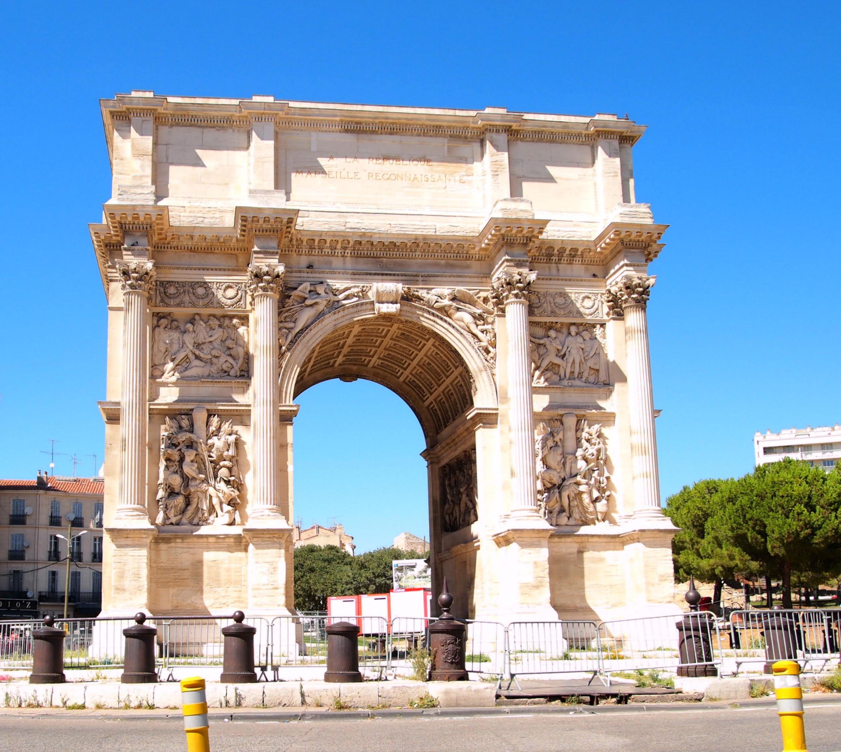 Porte d’Aix in Marselle, view from south.